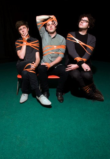 Pivot band profile photo